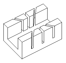 Stuslo (russian)/Mitre box (english) construction